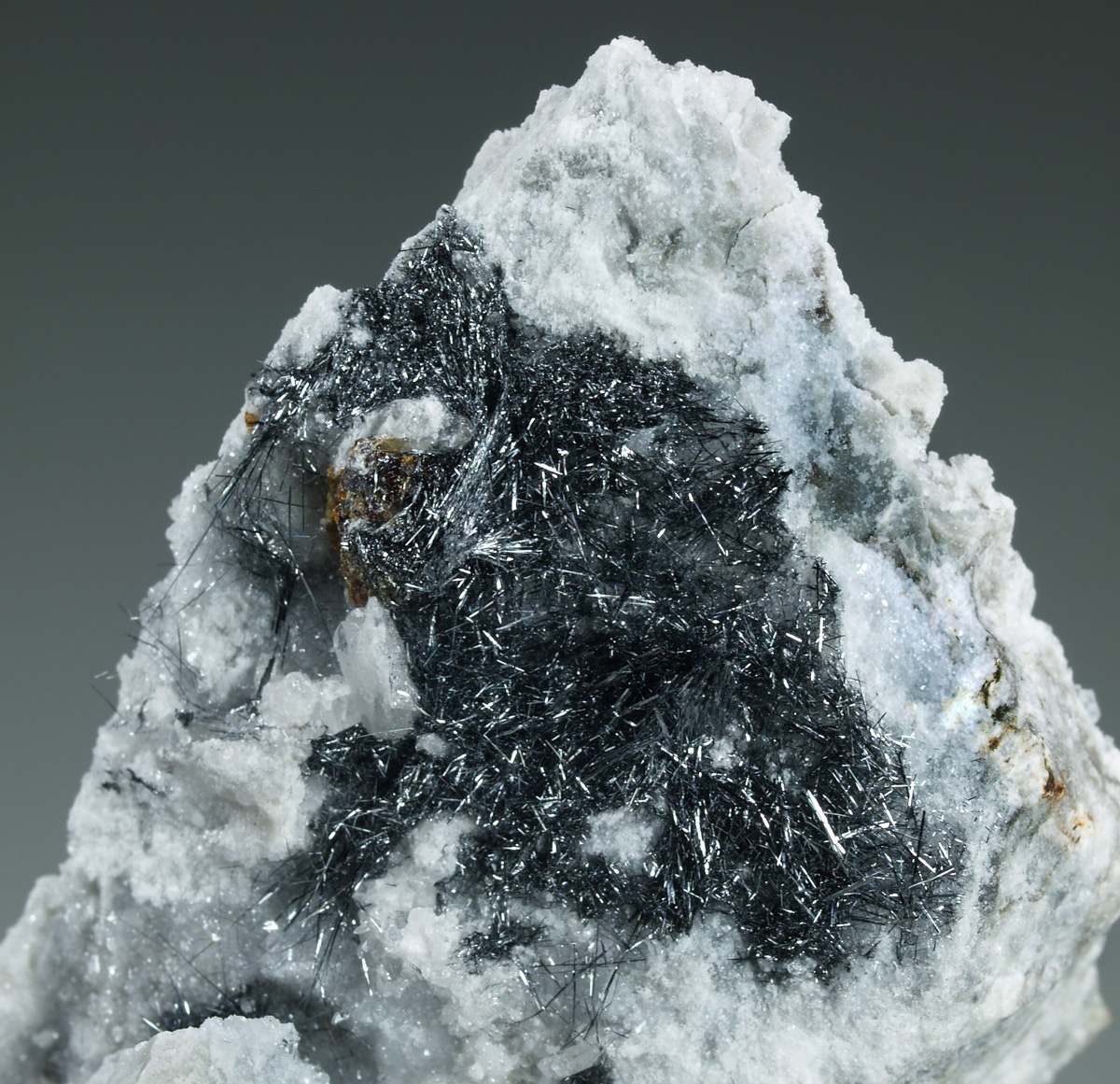 Elongated crystals of rouxelite, bluish, metallic luster and with thick section. It is accompanied by small and thin acicular crystals of robinsonite, red copper color, in the midst of larger crystals of rouxelite. Finding of late 2014. Analyzed by Stefano Magnanelli and Christian Biagioni. Not many specimens were collected. Collected: 2014 Locality: Monte Arsiccio Mine, Apuan Alps, Tuscany, Italy Size: 6.2 × 4.4 × 2.7 cm